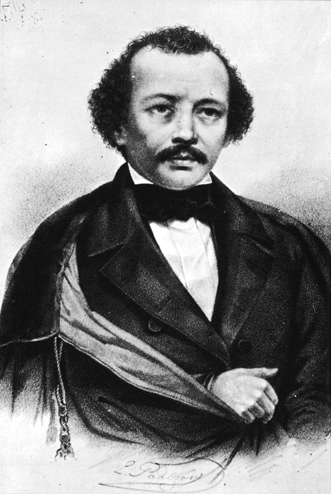 Mikhail Bakunin in 1849.